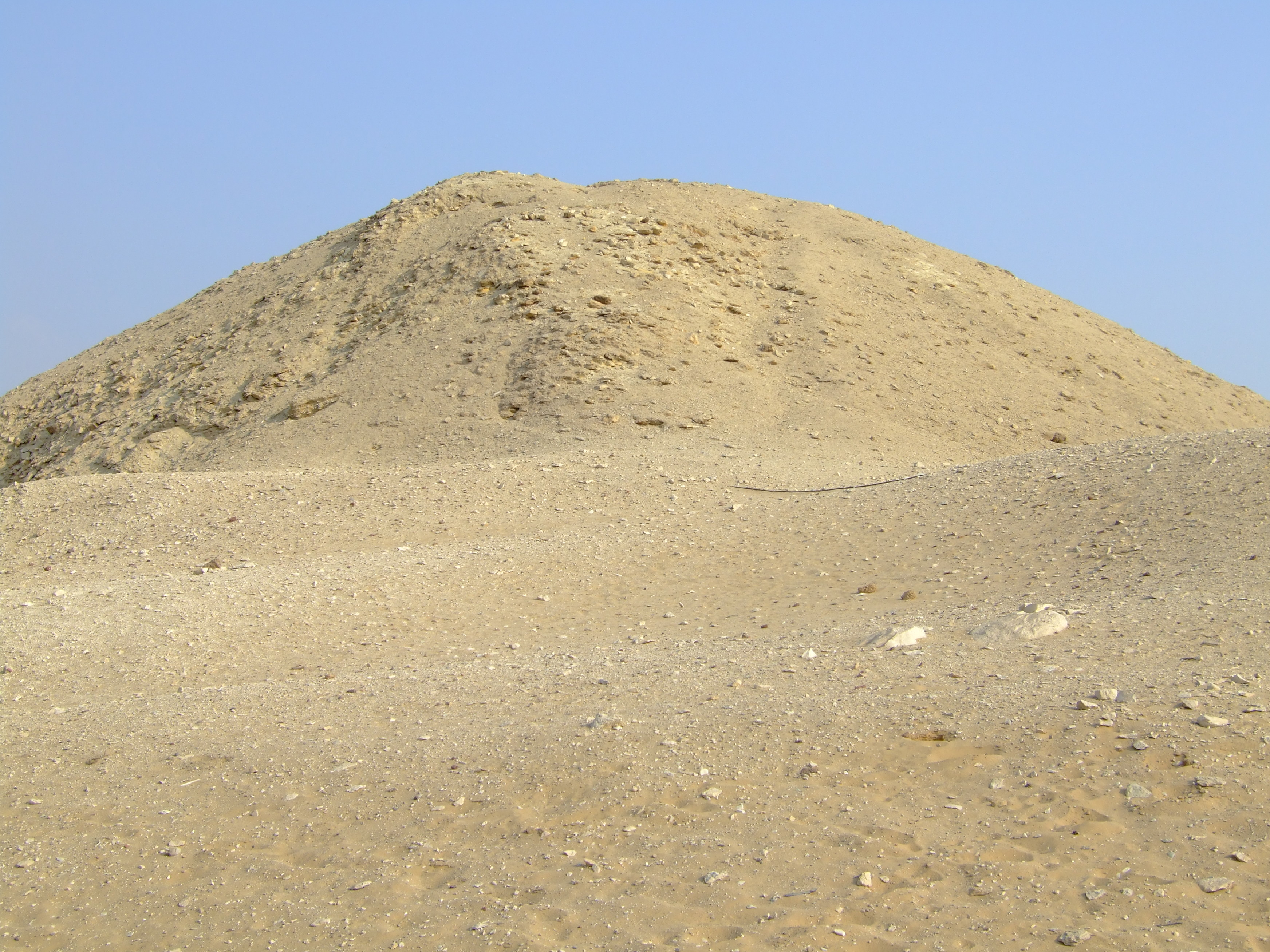 The 6th dynasty pharaoh Teti's pyramid at Saqqara. GFDL - Photo made by Loris Romito - October 2007